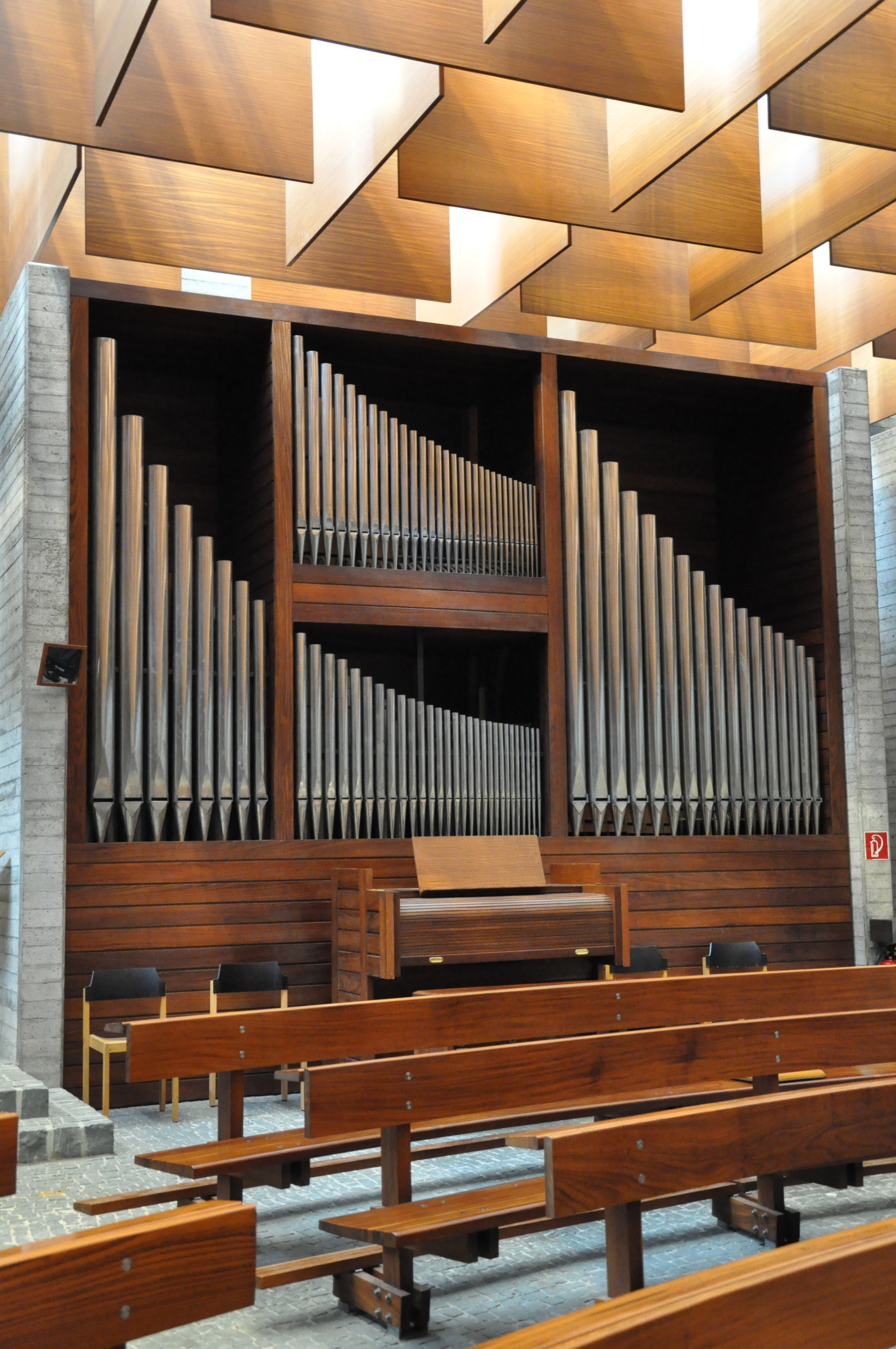 Organ in the Catholic church St. Paul Heidelberg, Germany